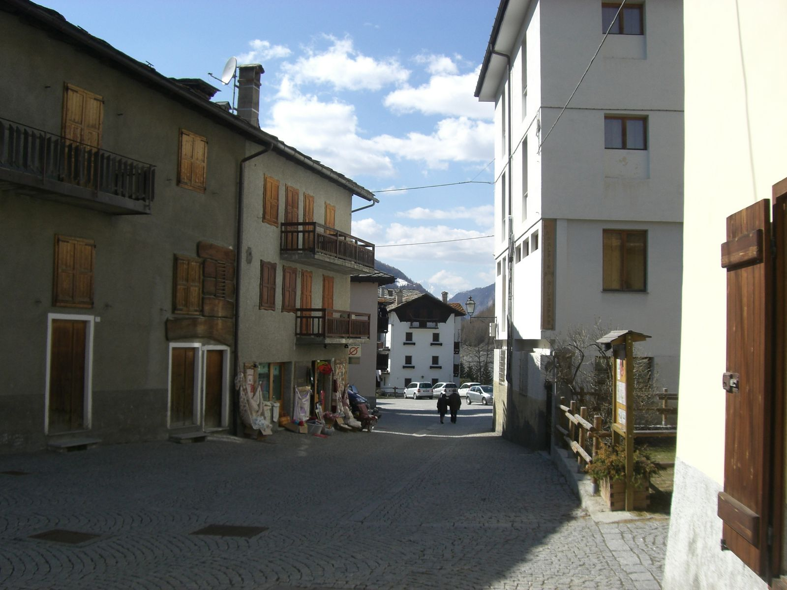 A street in Cogne (Italy)